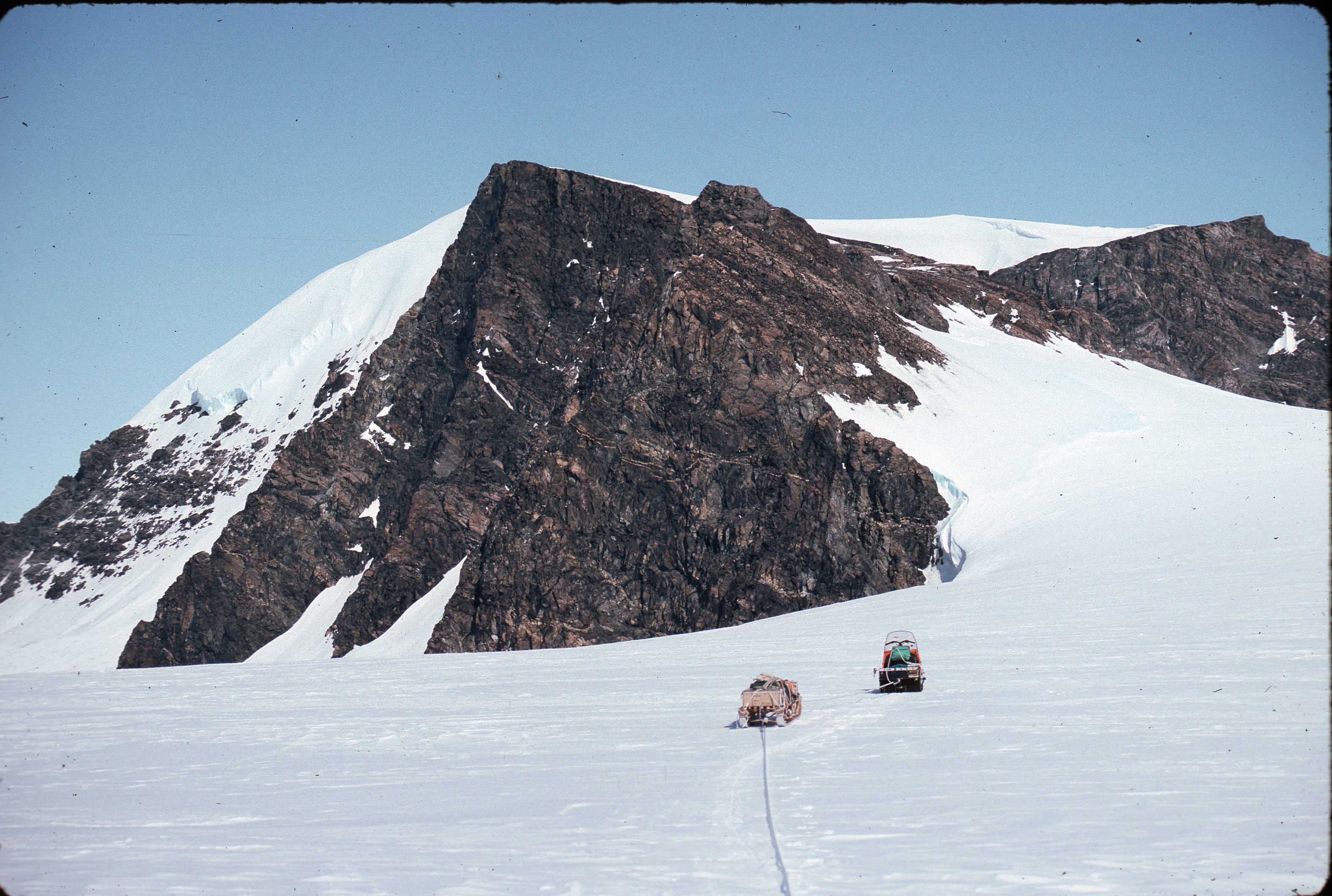 Mount Eissinger gabbro spur panorama